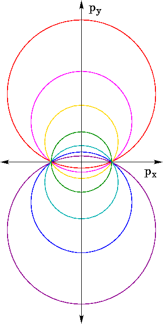 Family of circular hodographs sharing the same total energy E for the Kepler problem of determining the motion of two particles interacting by force that varies as the inverse-square of the distance between them. In the sense taken here, hodographs are plots of the path of the momentum vector over the orbit; the coordinate system is chosen so that the orbit lies in the x-y plane. Such a family is geometrically equivalent to a family of Apollonian circles or the σ isosurfaces of bipolar coordinates. The dotted circle is not a hodograph; rather, inversion in the dotted circle transforms the Keplerian hodographs into a family of straight lines passing through a common point (see Image:Kepler_hodograph_family_transformed.png). This figure was made by me on 22 November 2006 using Xfig and is hereby released under the GFDL.